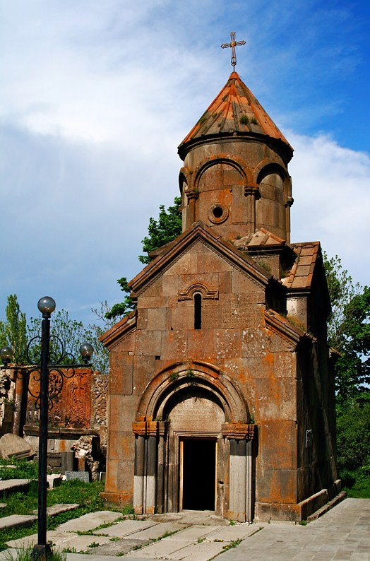 Kecharis Ch., Armenia.